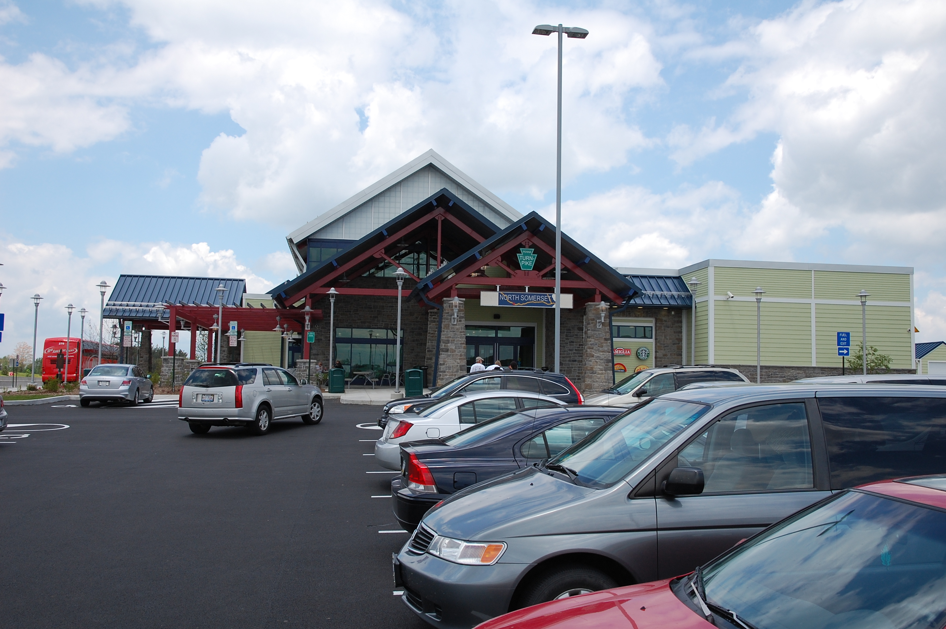 The exterior of the recently rebuilt Somerset Plaza on the Pennsylvania Turnpike.